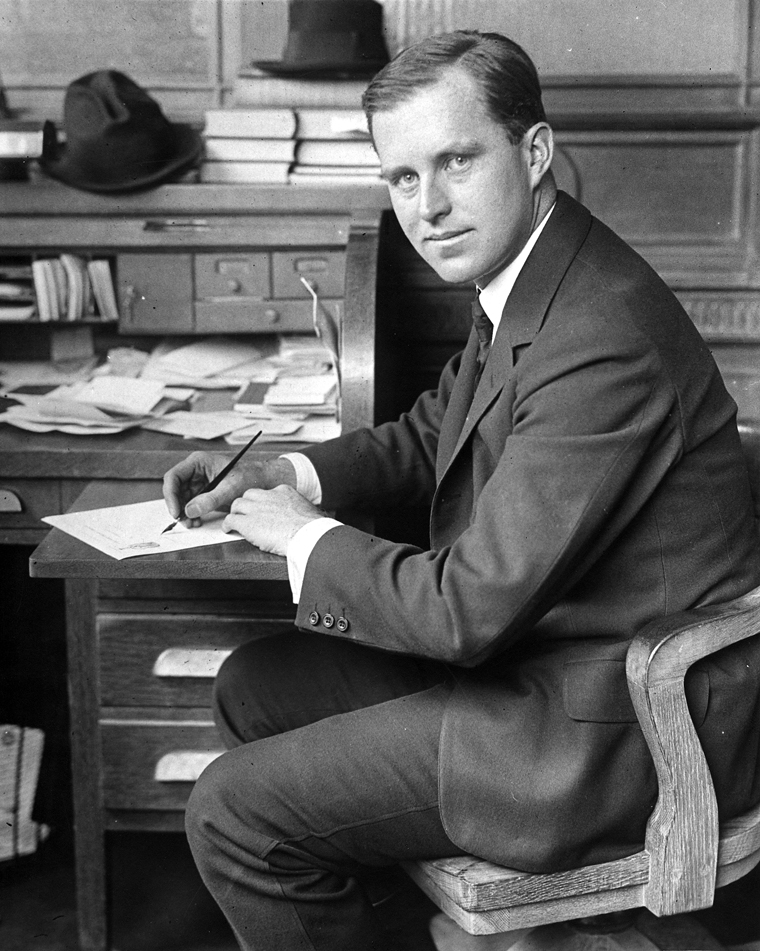 circa January, 1914. Joseph P. Kennedy, President of the Columbia Trust Company. Photograph in the John F. Kennedy Presidential Library and Museum, Boston.